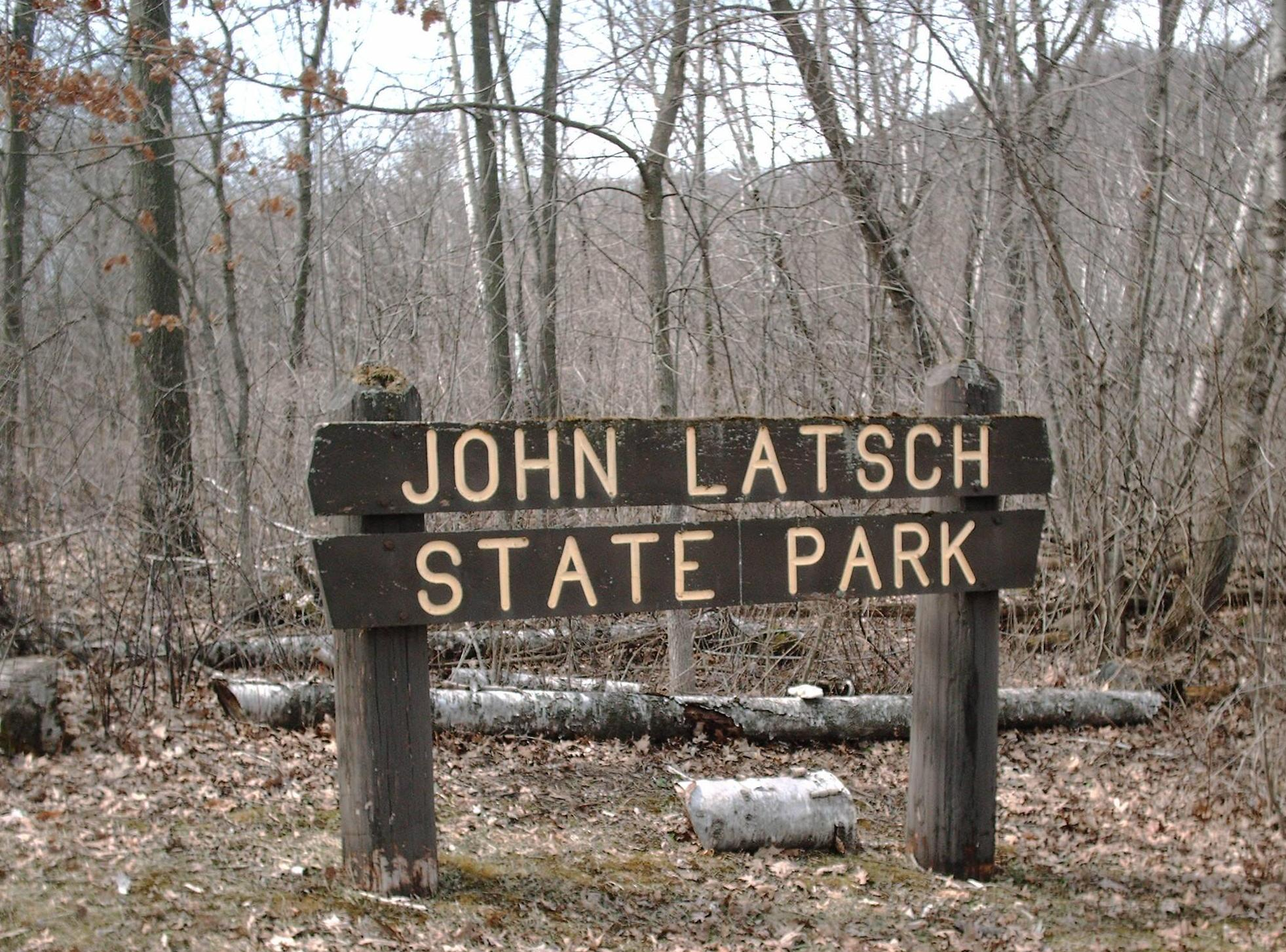 Photo I took 2006-05-09 of the John Latsch State Park entrance sign on the Mississippi River in Minnesota. CC & GFDL.